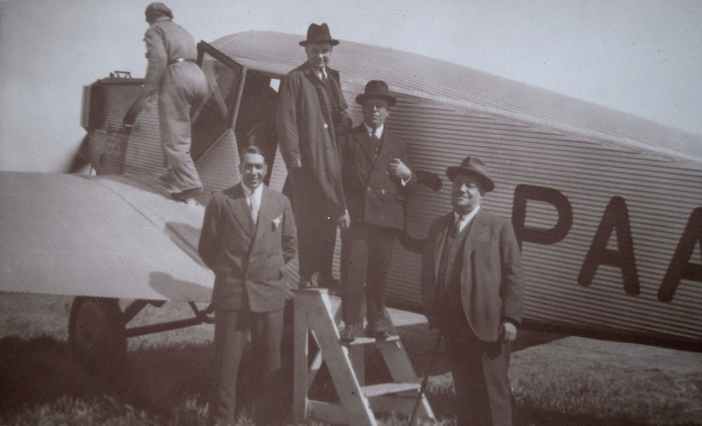 Alverca, Portugal - 13 May 1929 Junkers F 13 "C-PAAC"